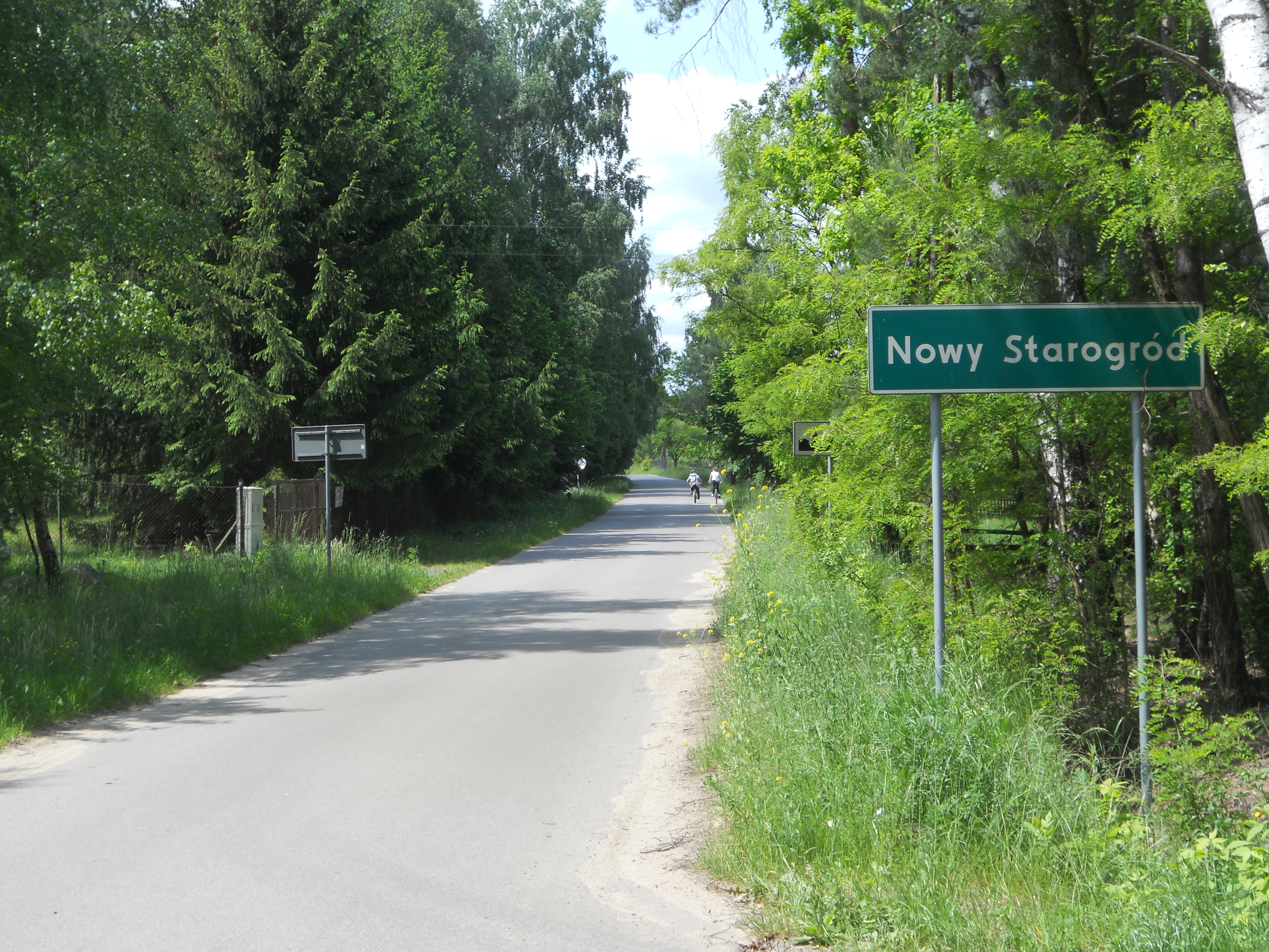 Nowy Starogrod